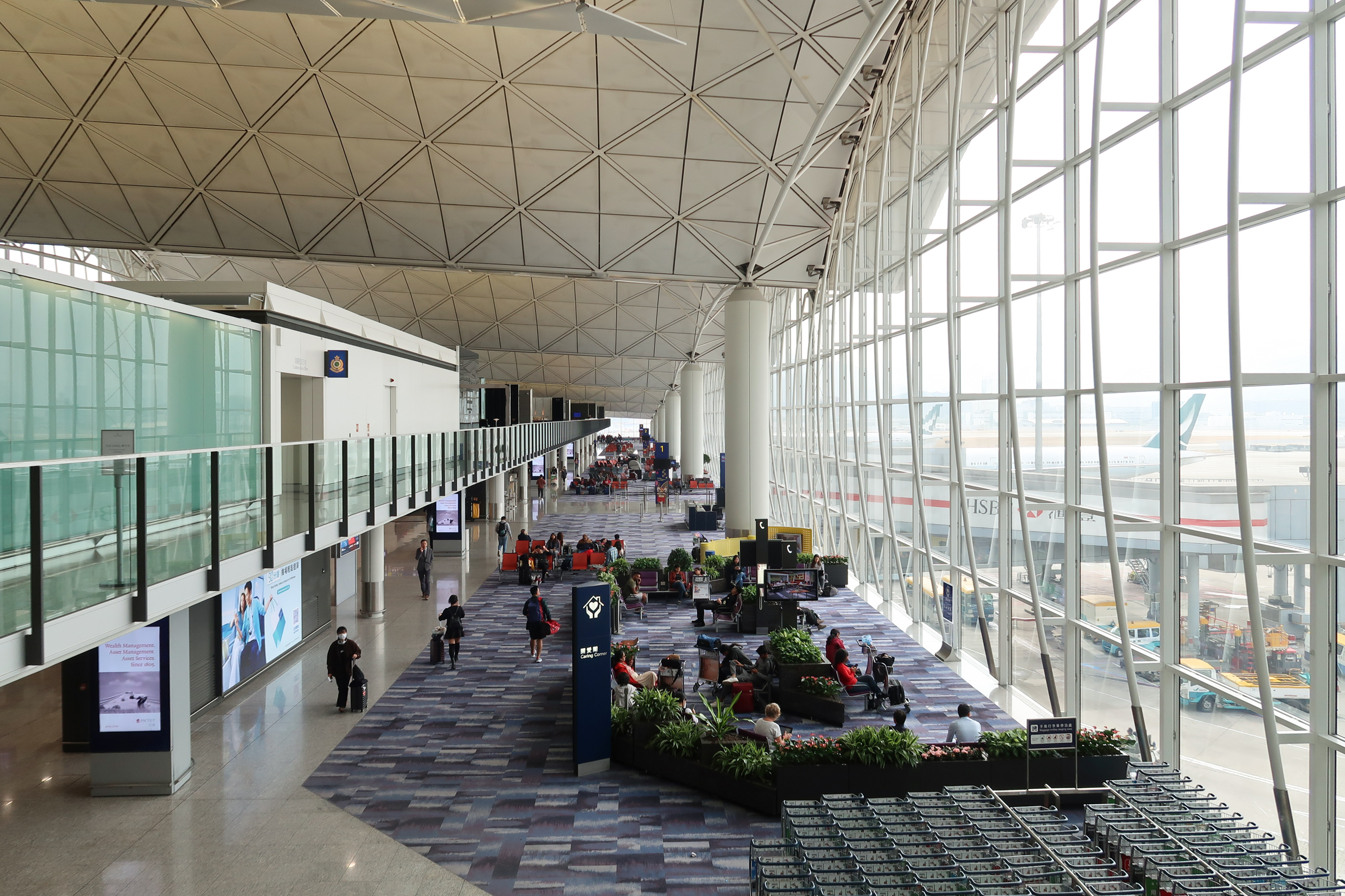 HKIA Terminal 1 South Concourse Gate 1-3